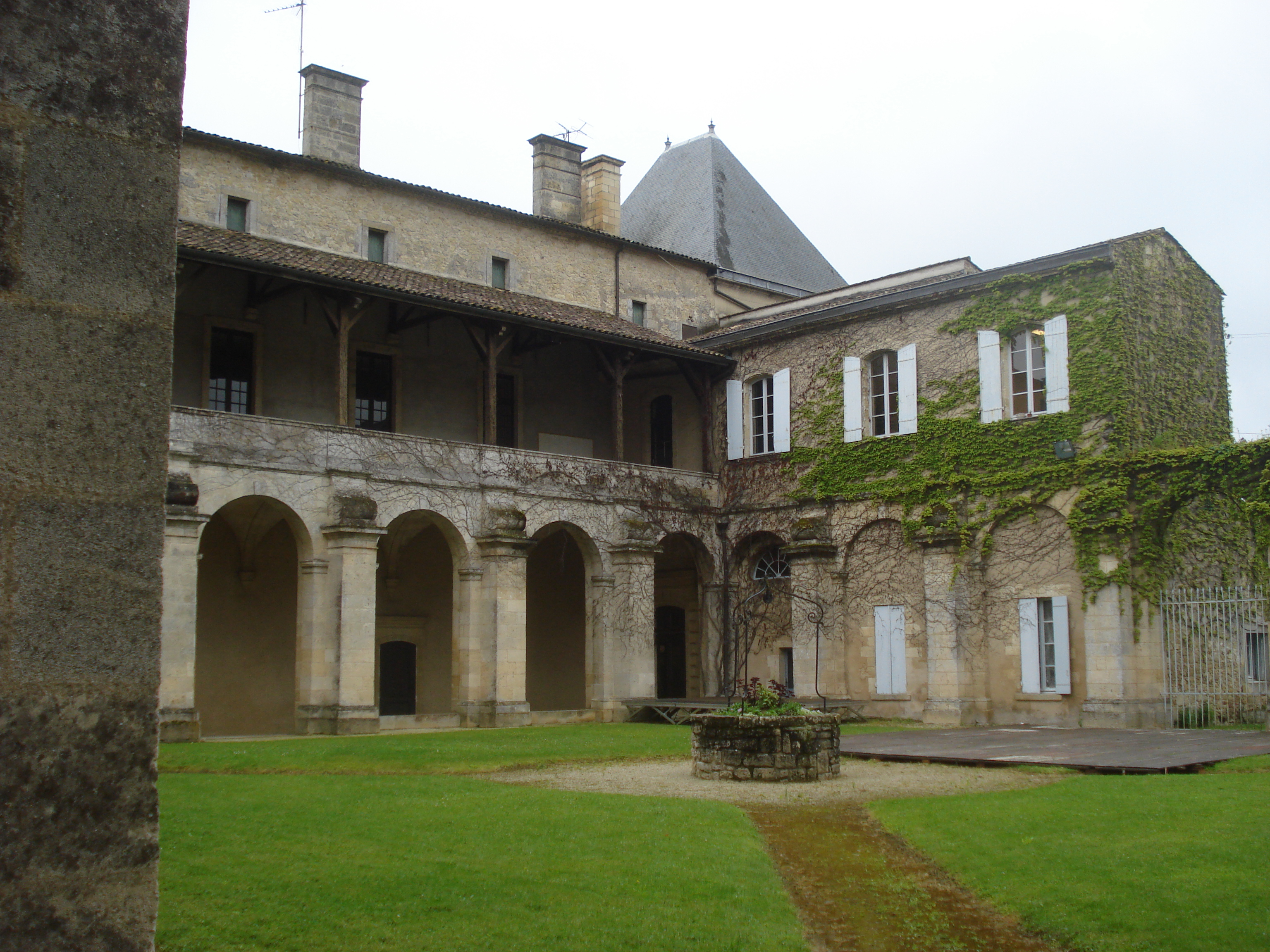 La Réole (Gironde, Fr), courtyard of the Abbey